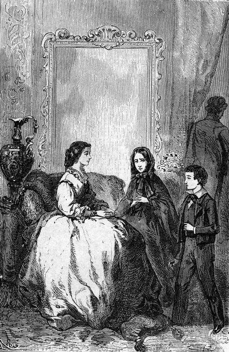 An ilustration from the novel "In Search of the Castaways; or Captain Grant's Children" by Jules Verne drawn by Édouard Riou.